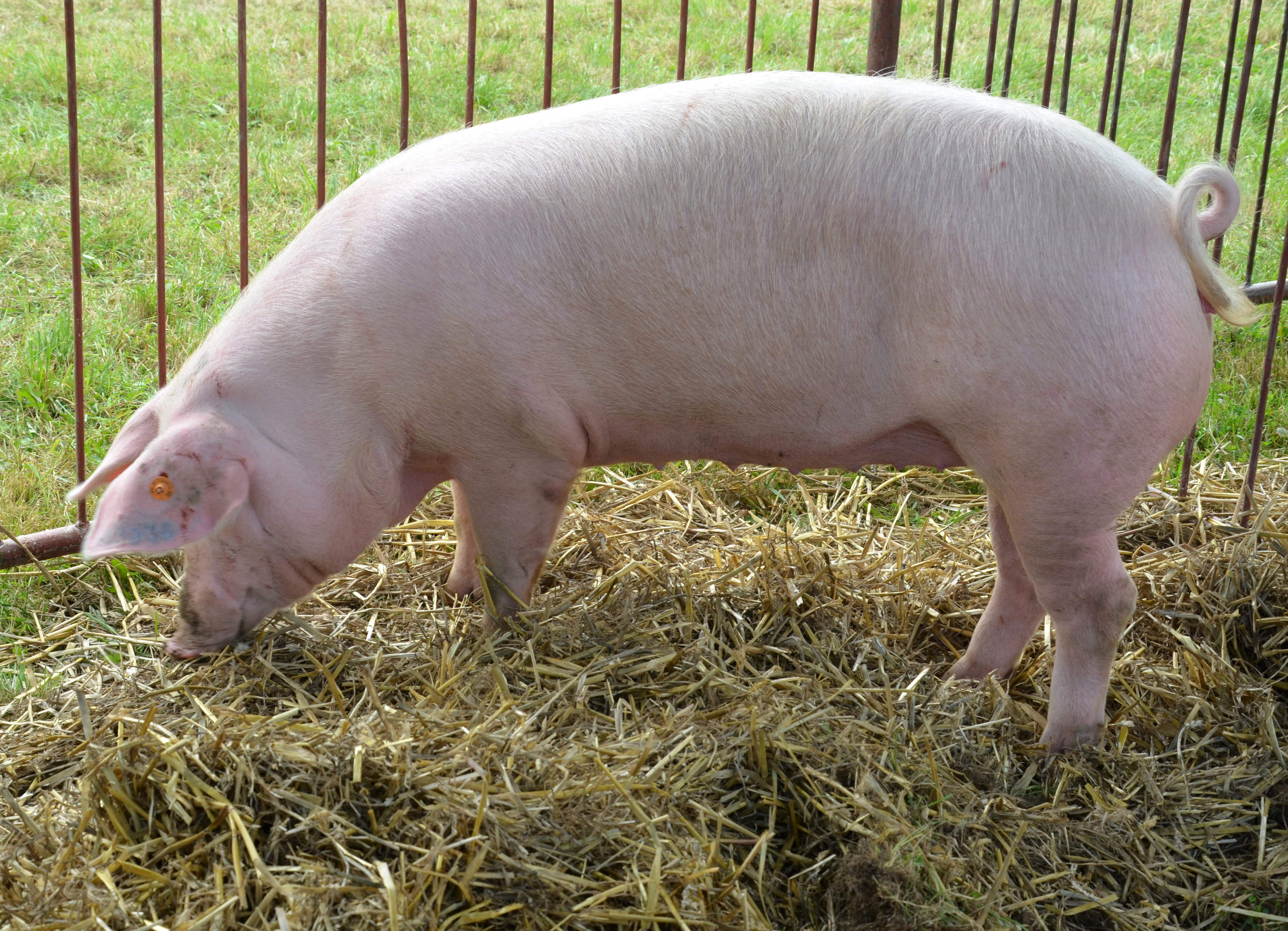 Polish White Landrace